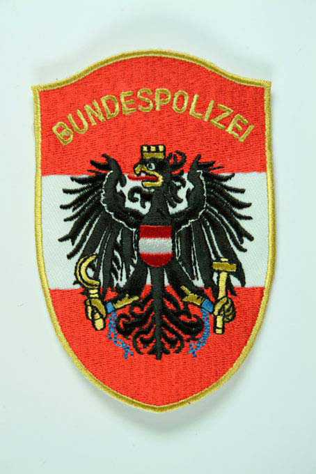 This image is in the public domain according to Austrian copyright law because it is part of a law, ordinance or official decree issued by an Austrian federal or state authority, or because it is of predominantly official use. (§7 UrhG) To uploader: Please provide where the image was first published and who created it. Bundespolizei - Abzeichen